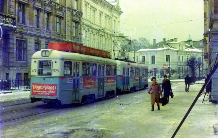 Oslo Sporveier tram 575 (TBO) in Riddervolds gateNorsk bokmål: Oslo Sporveier. Briskebytrikken. Trikk tilhenger 575 type TBO linje 1 til Sinsen, her i Riddervolds gate. Bilde tatt 14. februar 1976.